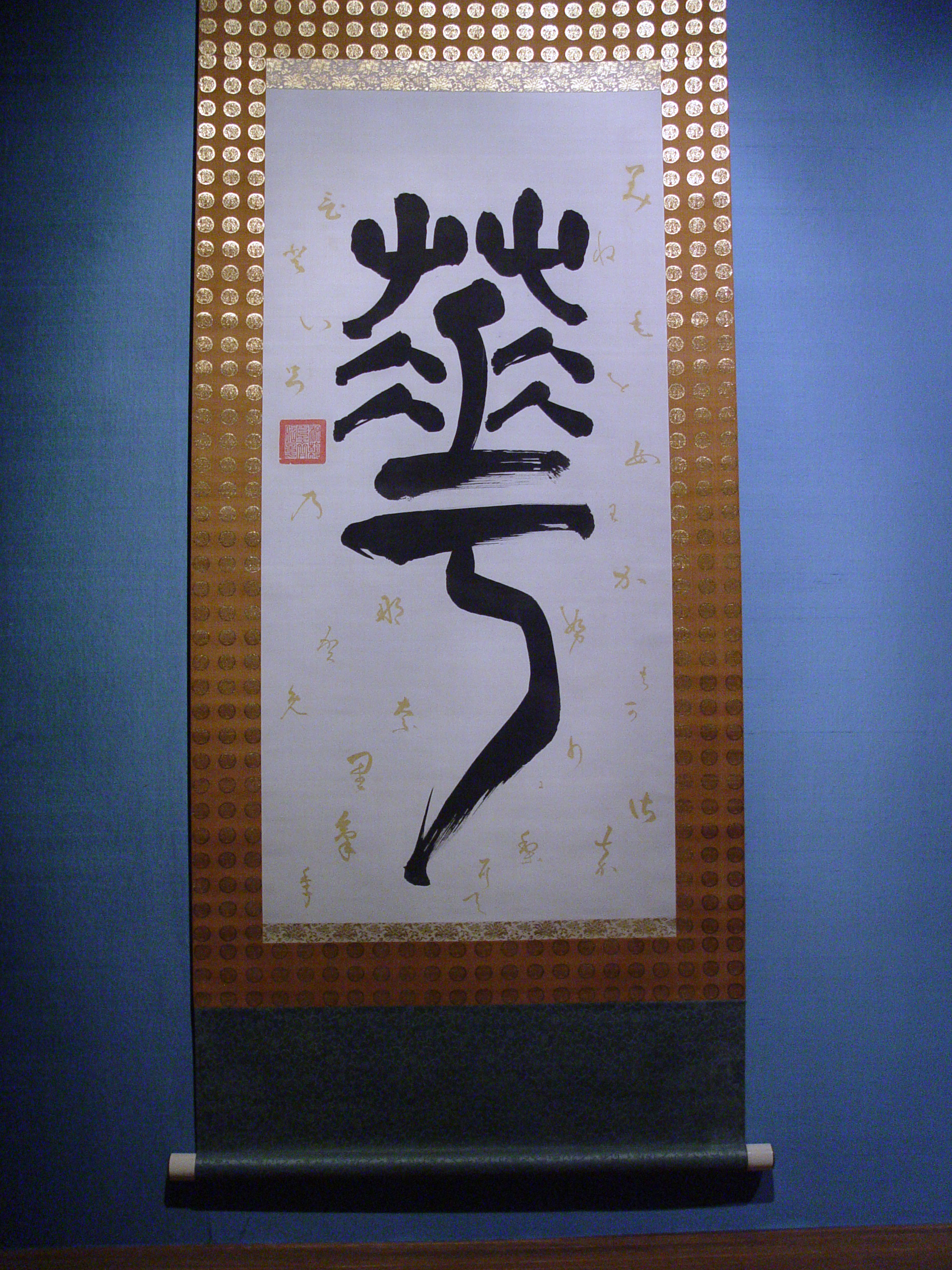 Lord Tokugawa Nariaki Japan, 1800-1860 Snow, Mmoon, Flower Calligraphy, circa 1840-1860 Set of three hanging scrolls; ink and gold pigment on paper Gift of 2008 Japanese Art Acquisitions Committee (M.2008.11.1-3) Wikipedia Loves Art at the Los Angeles County Museum of Art This photo of item # M.2008.11.1 at the Los Angeles County Museum of Art was contributed under the team name "Team_A" as part of the Wikipedia Loves Art project in February 2009. Los Angeles County Museum of Art The original photograph on Flickr was taken by howcheng—please add a comment to the original Flickr page whenever a use has been made on Wikipedia or another project. Project galleries on Flickr: this institution, this team Lord Tokugawa Nariaki Japan, 1800-1860 Snow, Mmoon, Flower Calligraphy, circa 1840-1860 Set of three hanging scrolls; ink and gold pigment on paper Gift of 2008 Japanese Art Acquisitions Committee (M.2008.11.1-3) Wikipedia Loves Art at the Los Angeles County Museum of Art This photo of item # M.2008.11.1 at the Los Angeles County Museum of Art was contributed under the team name "Team_A" as part of the Wikipedia Loves Art project in February 2009. Los Angeles County Museum of Art The original photograph on Flickr was taken by howcheng—please add a comment to the original Flickr page whenever a use has been made on Wikipedia or another project. Project galleries on Flickr: this institution, this team